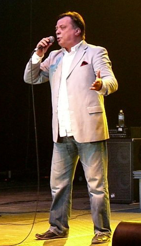 An image of Halid Beslic, taken on May 20th 2007 on concert in Toronto, Canada.